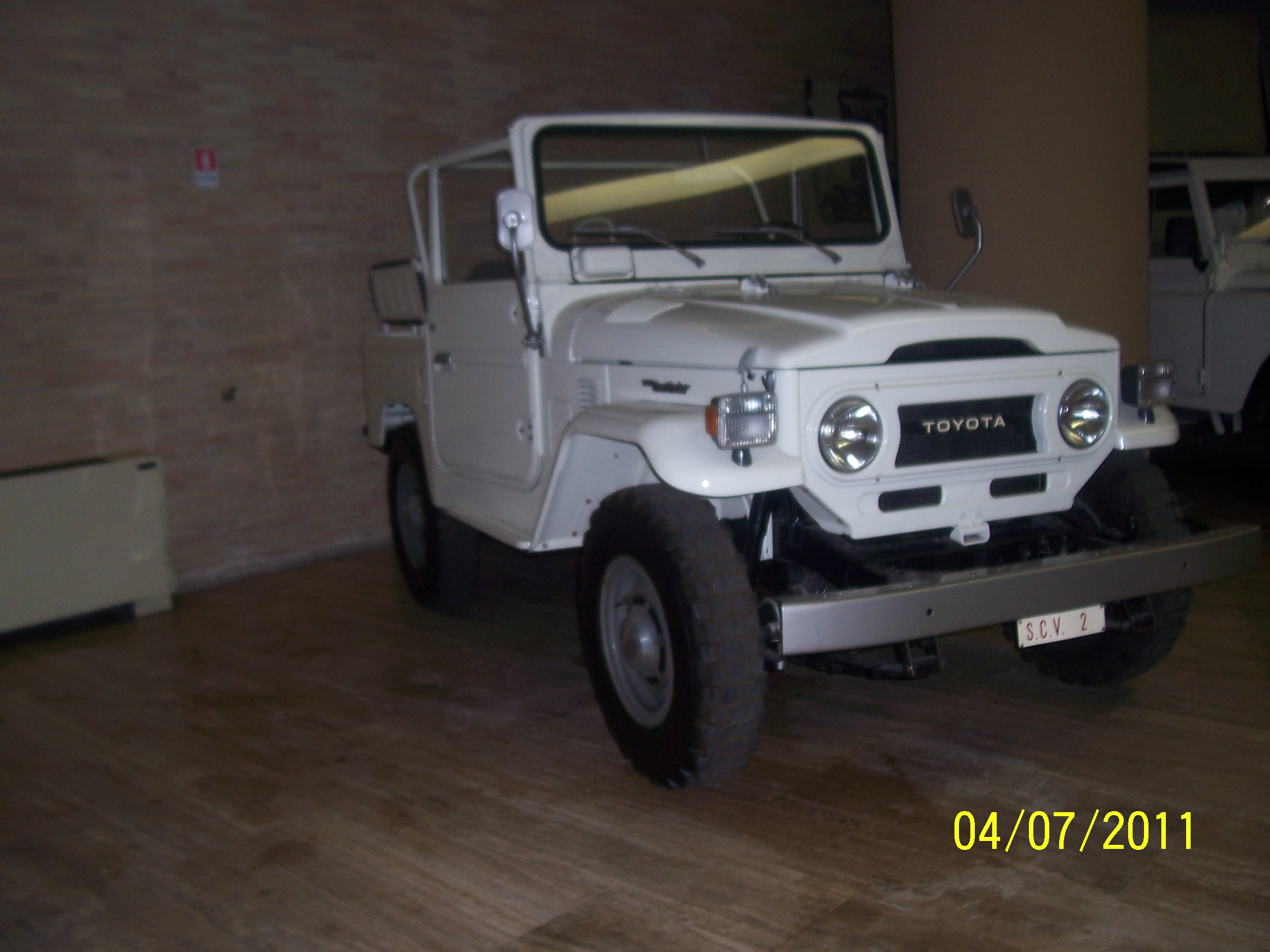 The Toyota Land Cruiser used by pope Paul VI and by pope John Paul II.